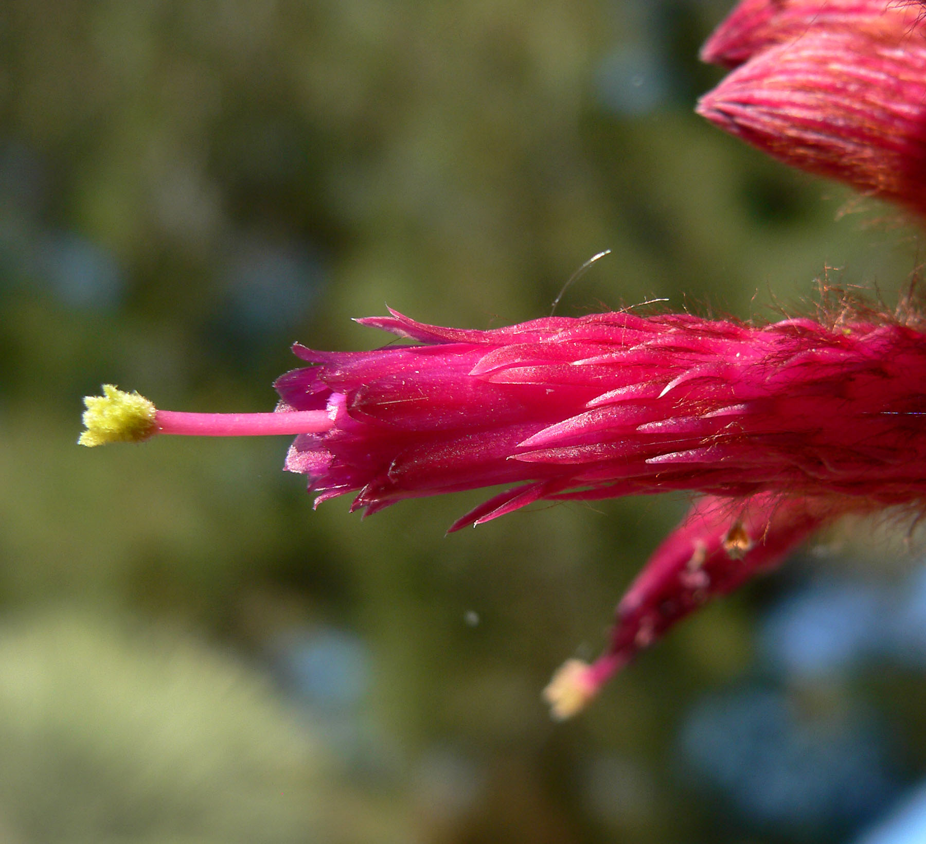 Cleistocactus strausii at the Springs Preserve garden, Las Vegas, Nevada